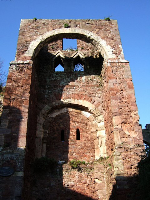 Rougemont Castle Gatehouse, Exeter "The best preserved early Norman gatehouse-keep in the country" (Cherry & Pevsner). They suggest that, although the main rounded arches are clearly typically Norman, "the pair of triangular-headed windows ... suggest the employment of Saxon masons". The local stone (volcanic trap and pale sandstone) gives the building a strong westcountry feel. A notice commemorates the trial here of the last people in England to be hanged (elsewhere in Exeter) for witchcraft, in 1682 and 1685.